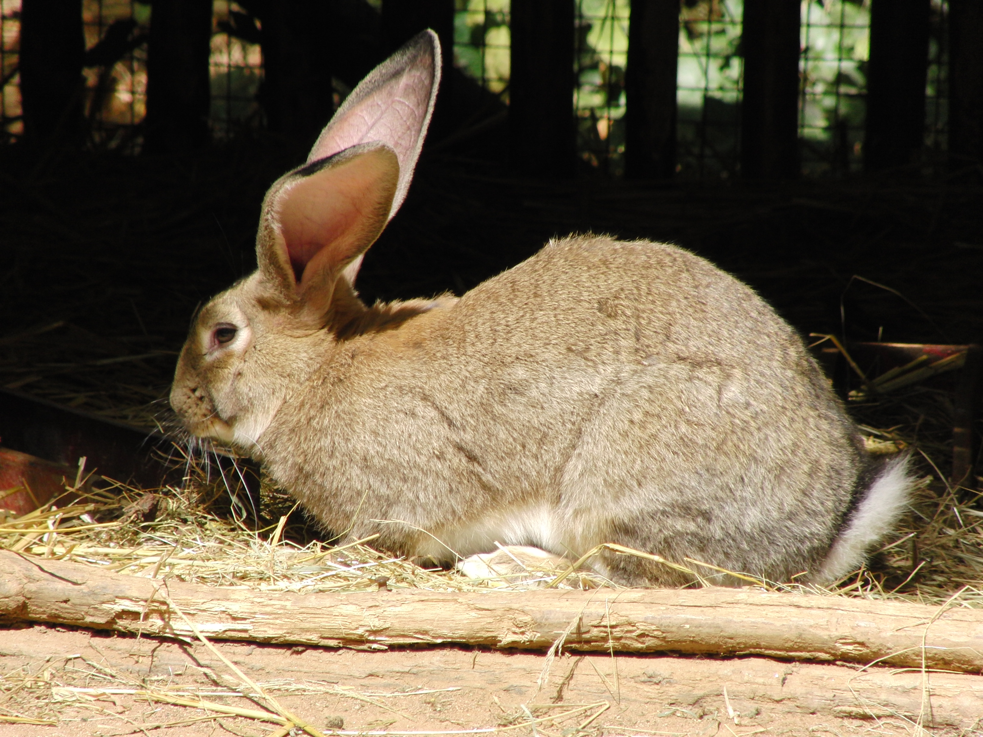 Flemish giant